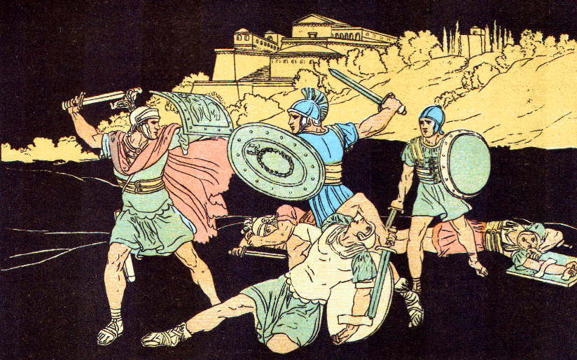 The Horatii and the Curiatii. Illustration for Stories from Livy by Alfred J Church (Seeley, 1895).